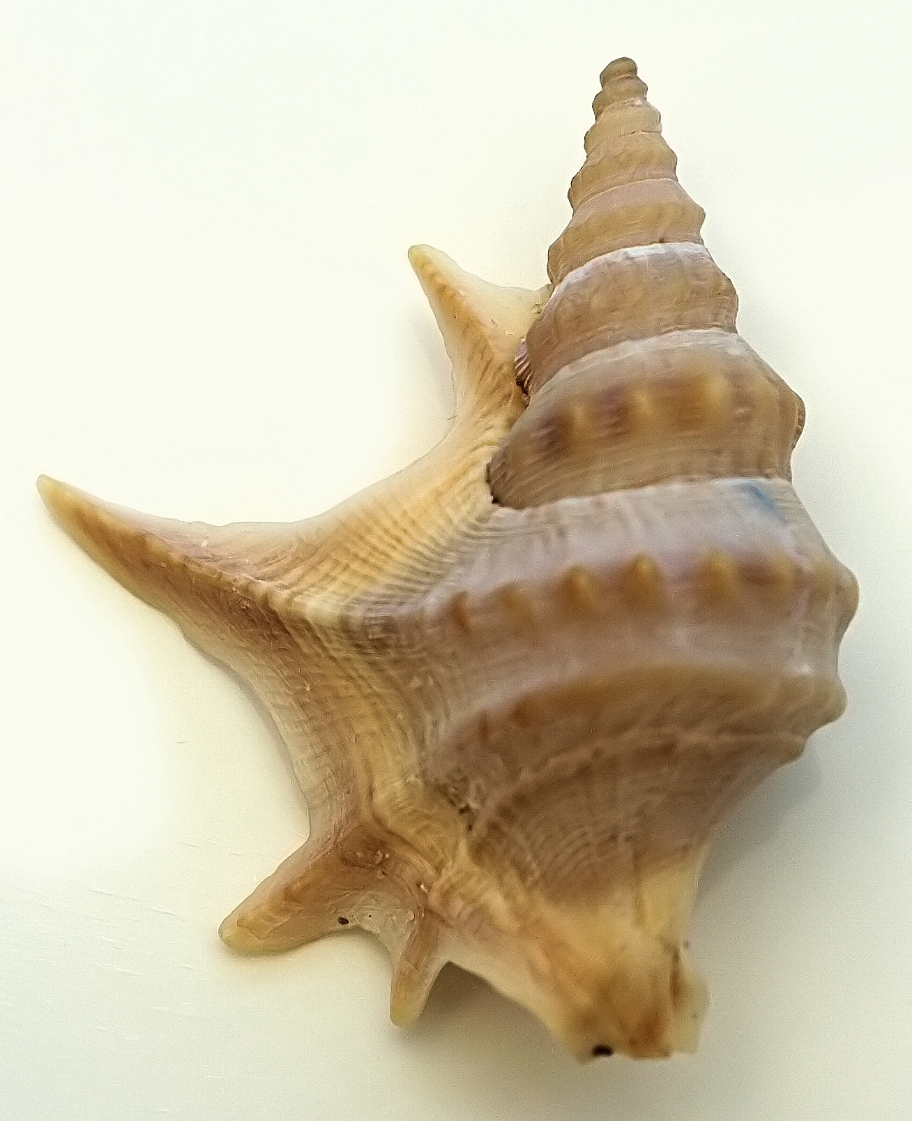 Common pelican's foot collected near Riumar, Baix Ebre, Catalonia, Spain